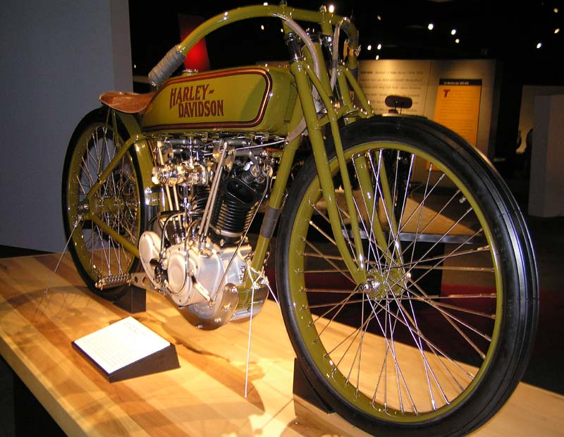 1923 Harley-Davidson Model 8-Valve Board Track Racer - The Art of the Motorcycle - Memphis. 61 cu-in, bore x stroke 3-5/16 x 3-1/2 in. Power: unknown. Top speed:109 mph (175 km/h). Collection of Daniel K. Statenkov.